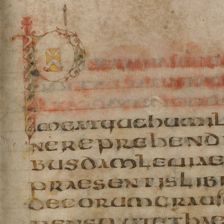 Gregory the Great, Pastoral Care, ca. 600, probably Rome. Start of the work. Among the numerous manuscripts of these widely-read Regulae, perhaps the oldest is conserved in Troyes public library it is an early seventh-century manuscript in an uncial script without divisions between words, probably originating in Rome. There are about twenty-five long lines per page. The only ornamentation in the manuscript are penwork initials in red, green and yellow.